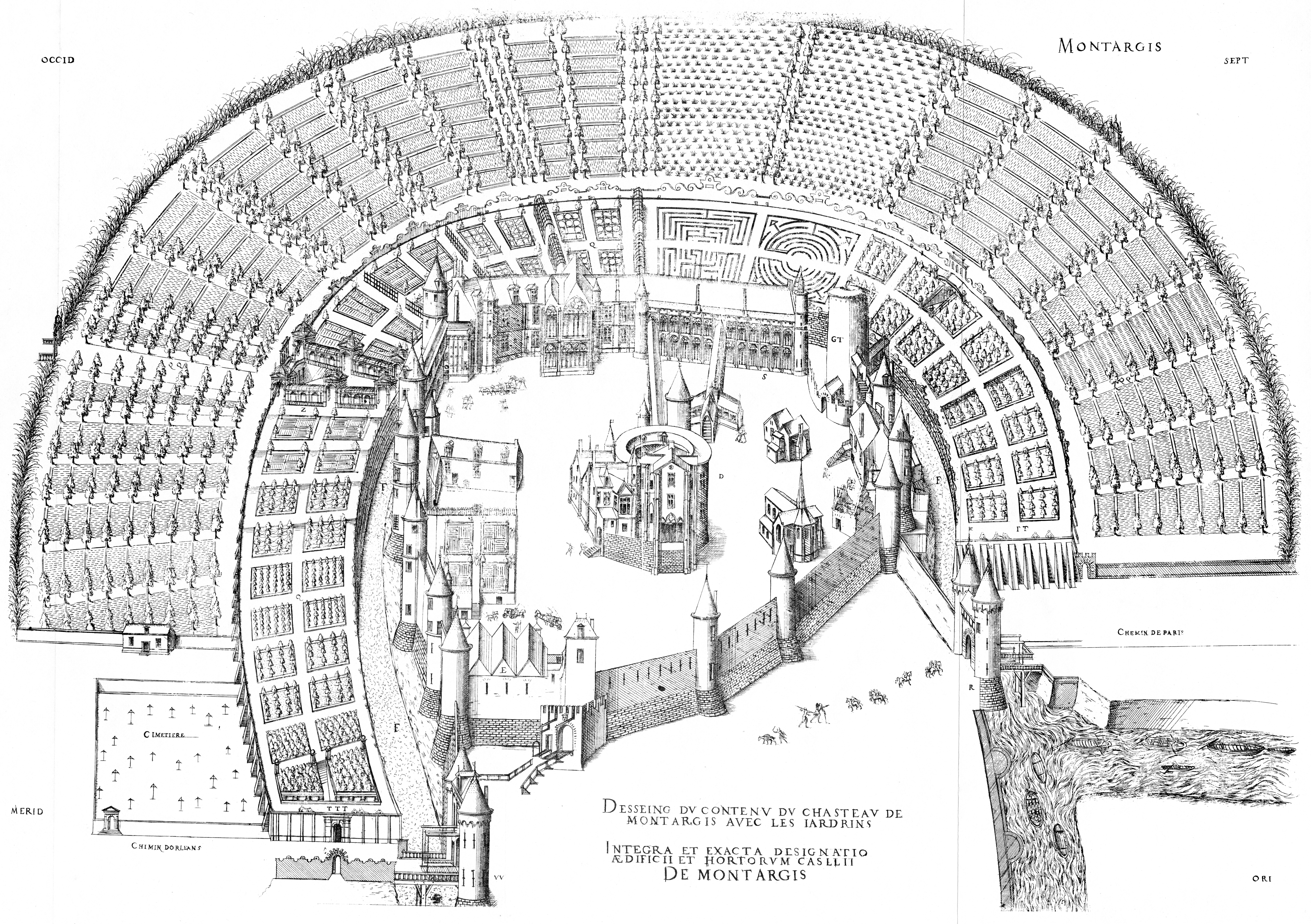 Engraving from Le premier volume des plus excellents Bastiments de France by Jacques I Androuet du Cerceau: Château de Montargis: bird's-eye view looking west